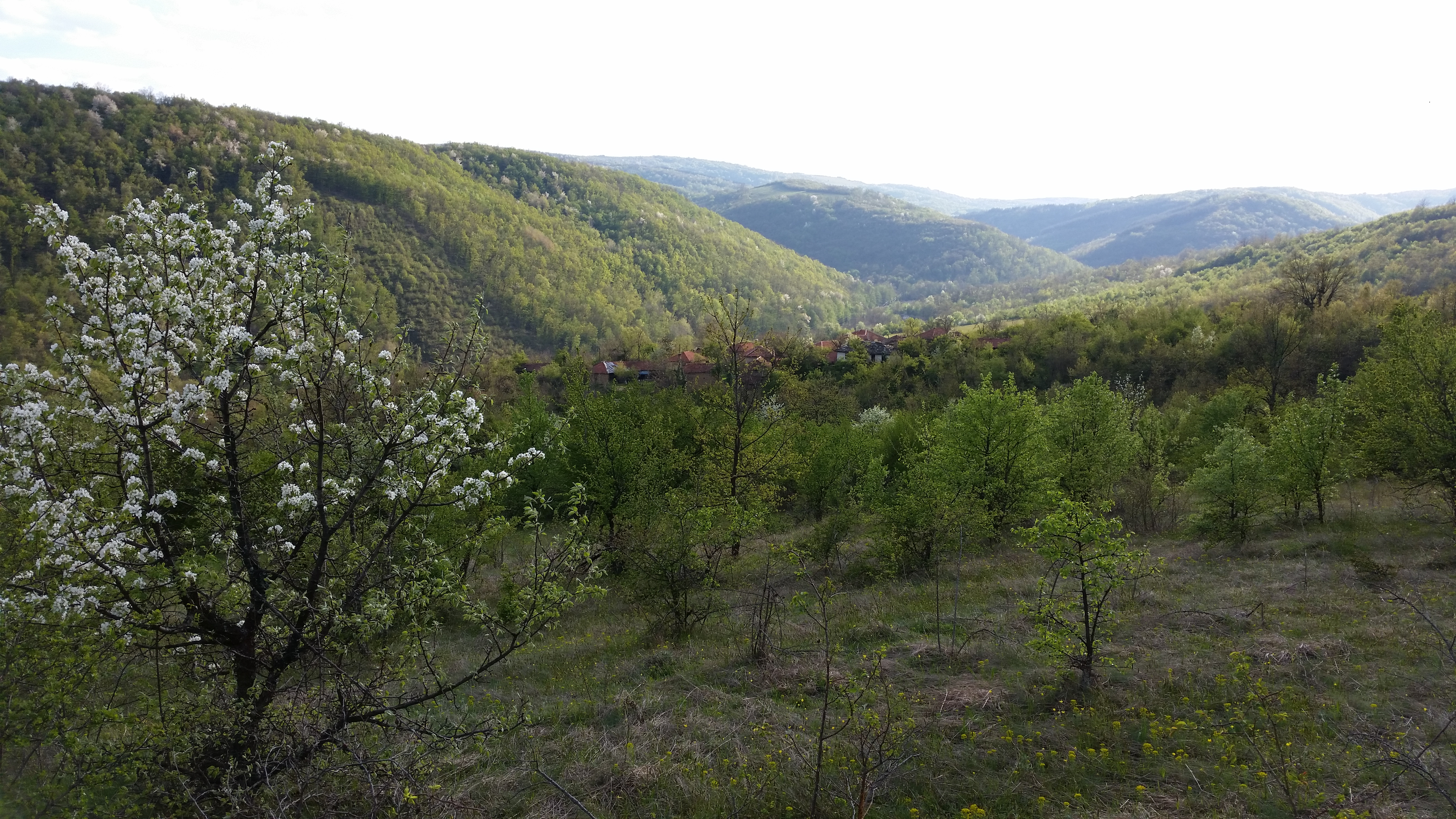 Villages in Bulgaria